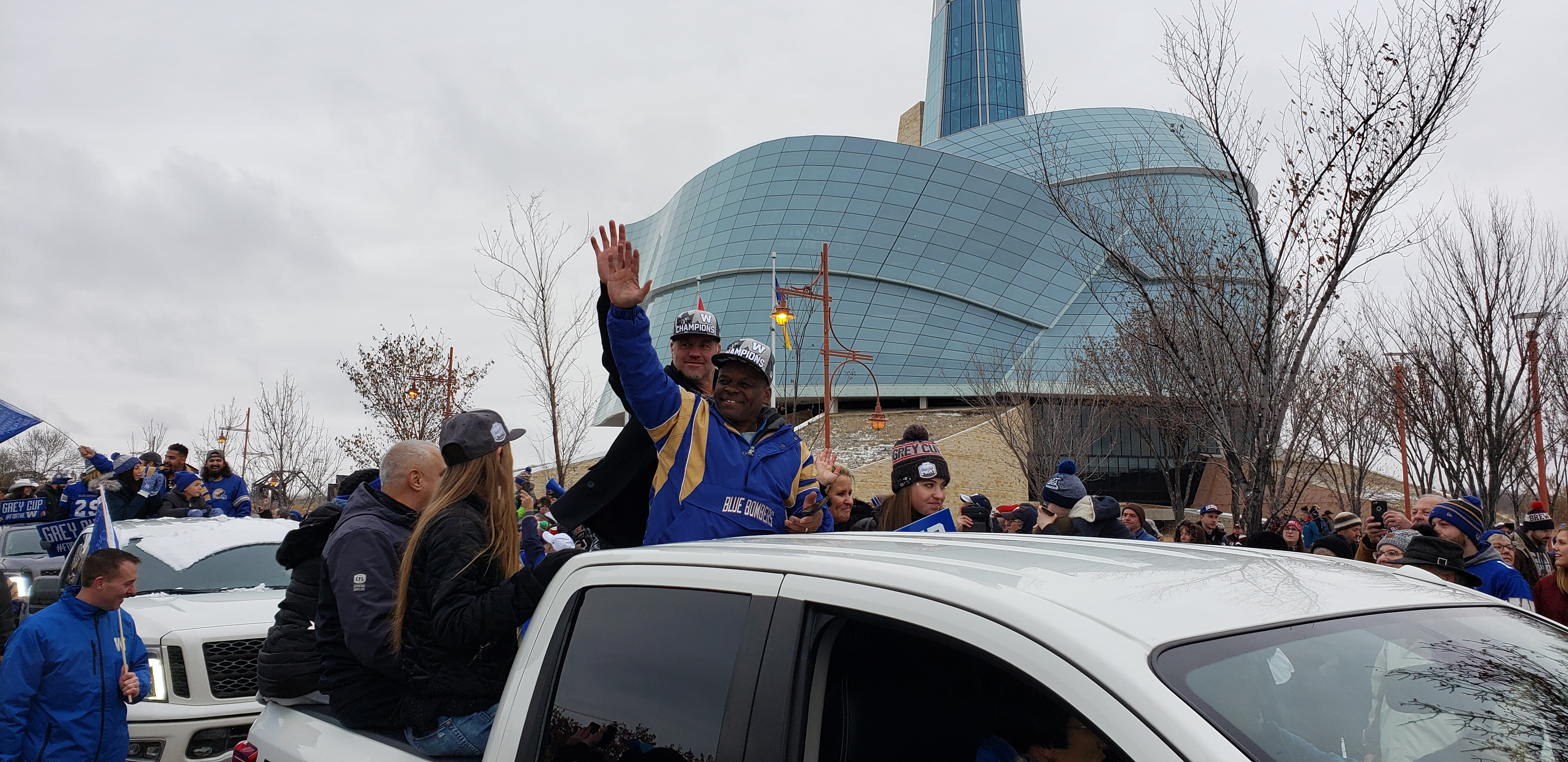 The Blue Bombers defensive coordinator at their 2019 Grey Cup parade in Winnipeg, Manitoba.